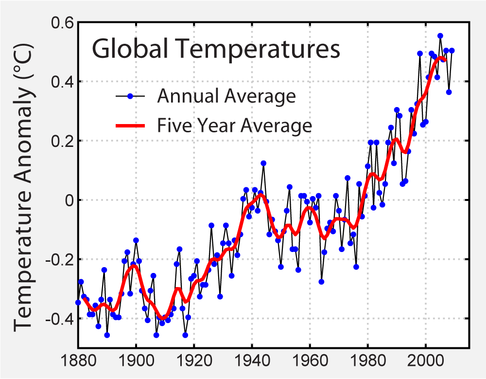 This image shows the instrumental record of global average temperatures as compiled by the NASA's Goddard Institute for Space Studies. (2006) "Global temperature change". Proc. Natl. Acad. Sci. 103: 14288-14293. Following the common practice of the IPCC, the zero on this figure is the mean temperature from 1961-1990. This figure was originally prepared by Robert A. Rohde from publicly available data and is incorporated into the Global Warming Art project.